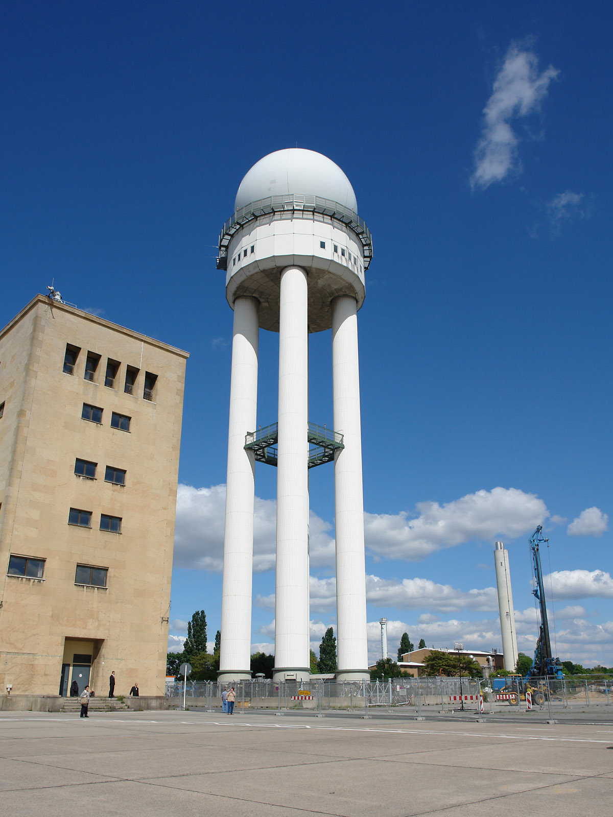 The 3D-Radar built by the U.S. Air Force at Tempelhof airport in the 1980s.